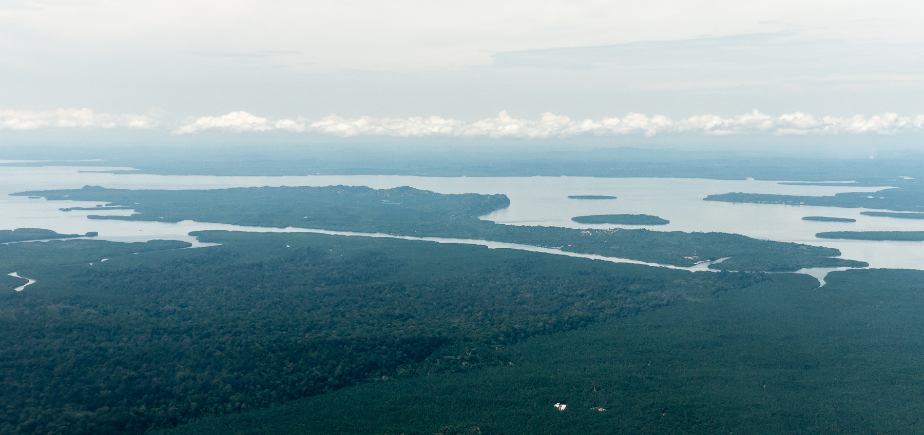 Sandakan, Pulau Timbang; Aerial View while preparing for landing at Sandakan Airport